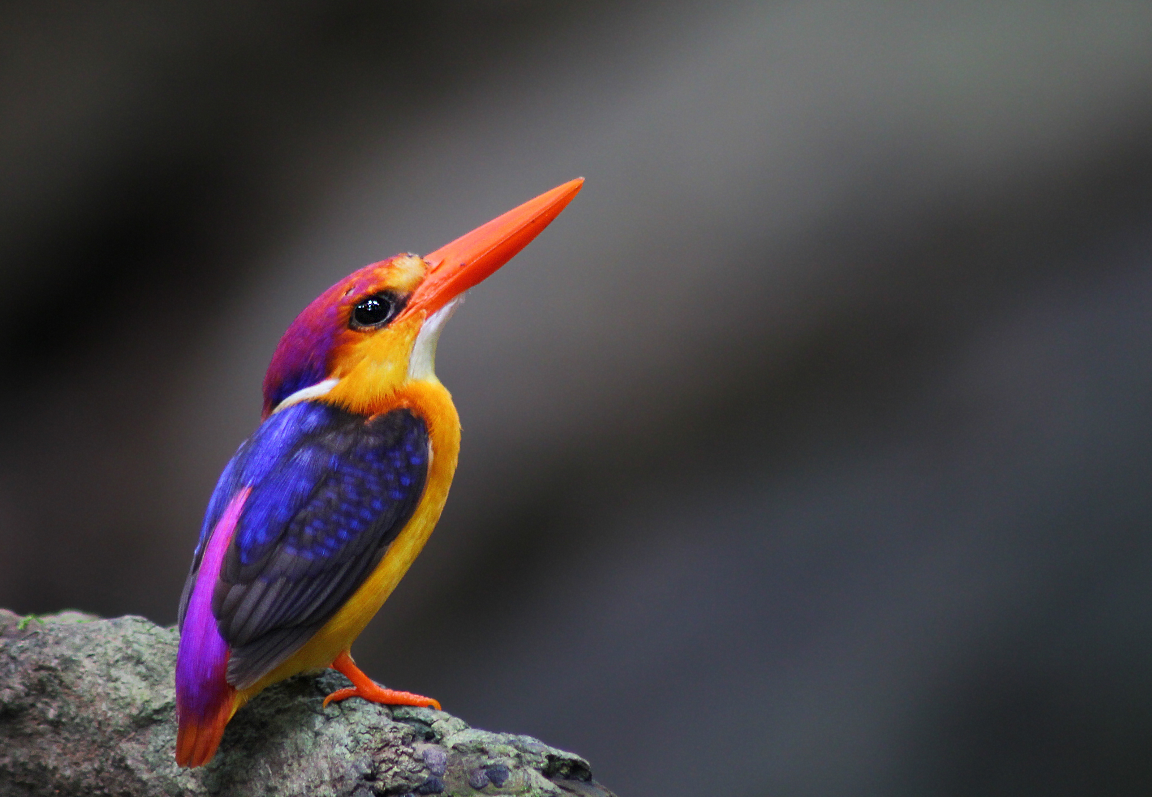 Oriental Dwarf Kingfisher, popularly known as ODKF, is the jewel of Western Ghats in Maharashtra. This pretty colorful kingfisher is the breeding visitor to Mumbai in every Monsoon. This image is captured at Sanjay Gandhi National Park in Mumbai on 19th August 2015.